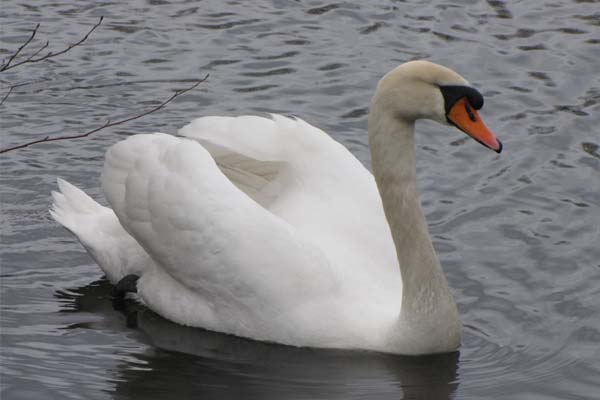 Swan